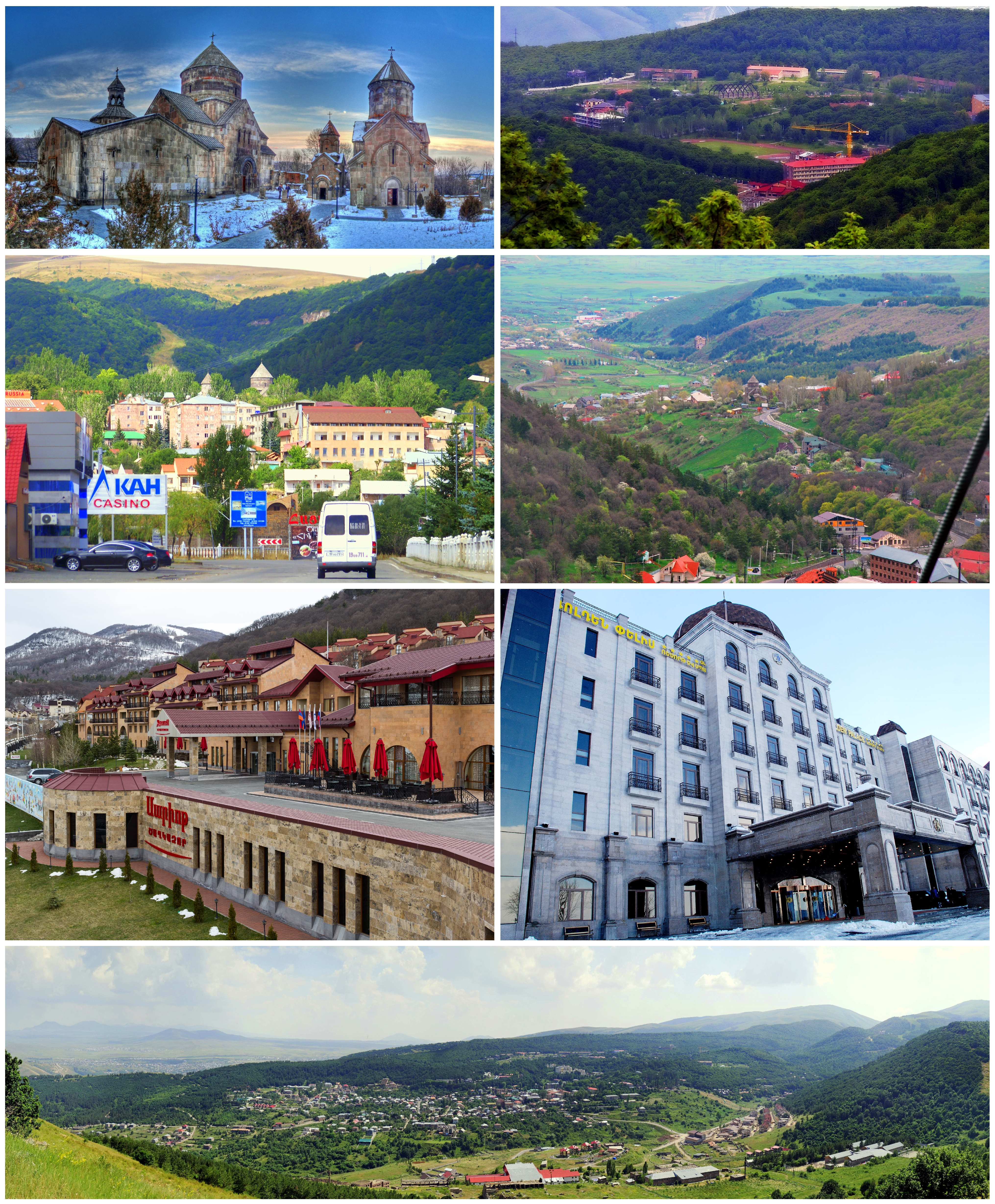 Tsaghkadzor collection of images.